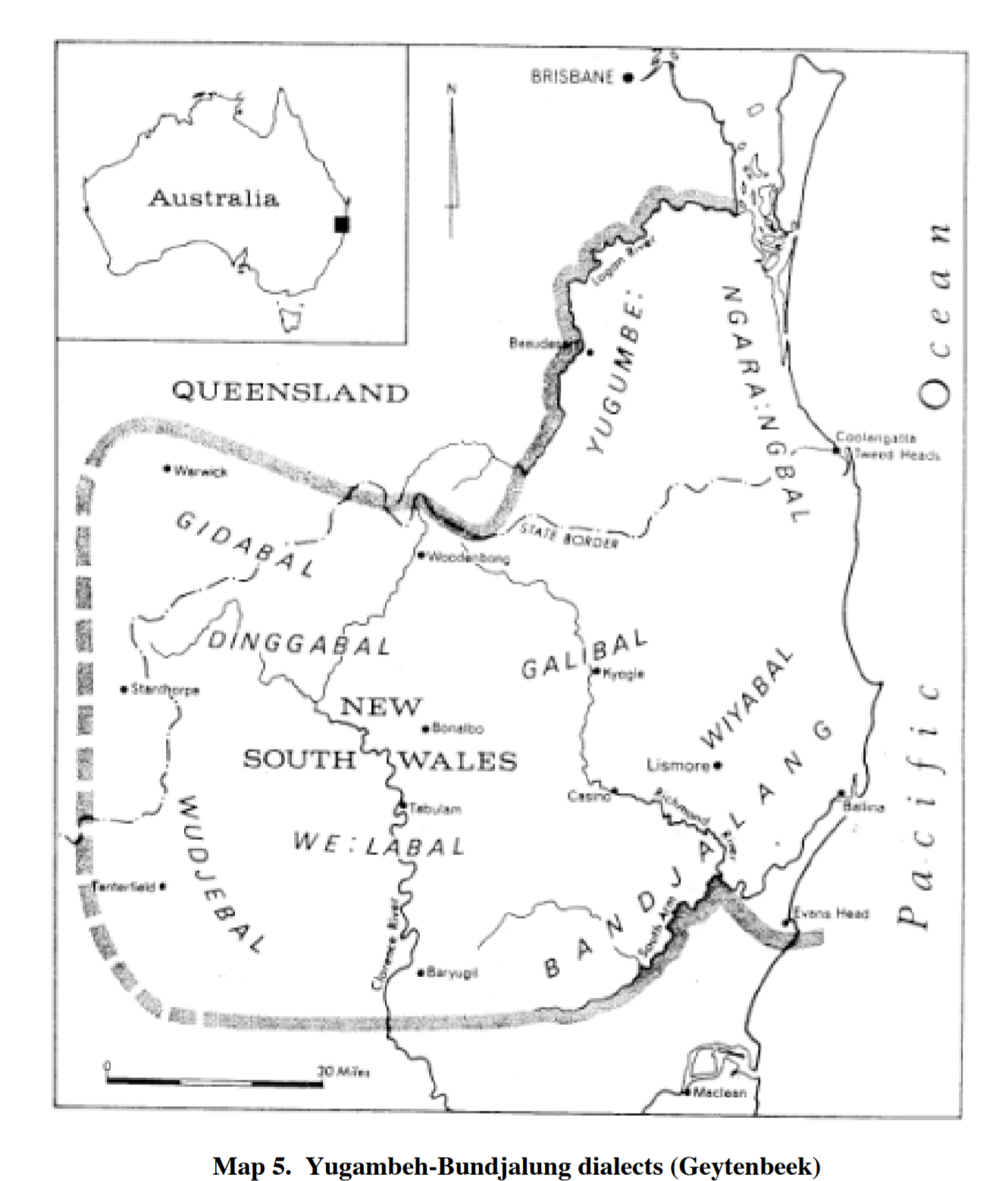 Dialect group map from Gidbal